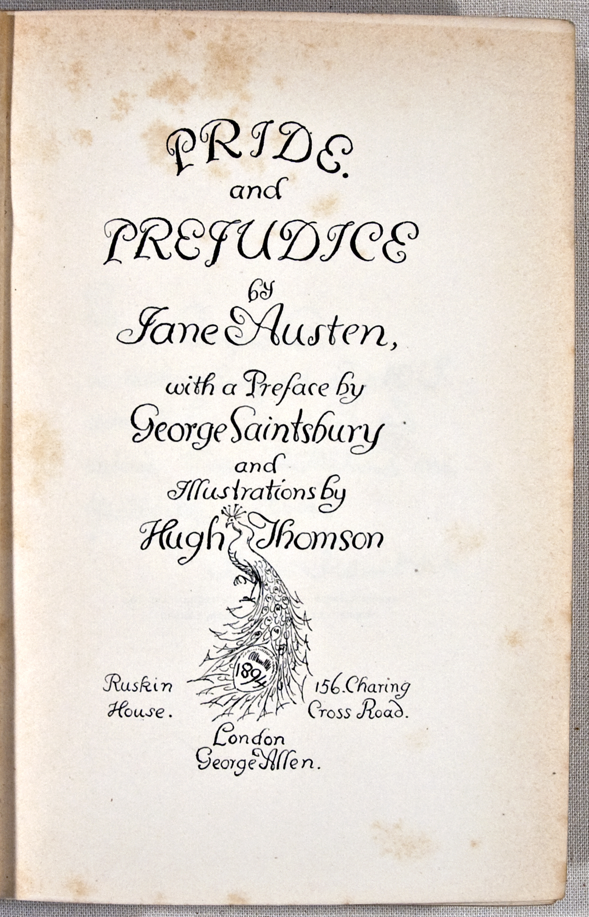 Title page. Austen, Jane. Pride and Prejudice. London: George Allen, 1894.